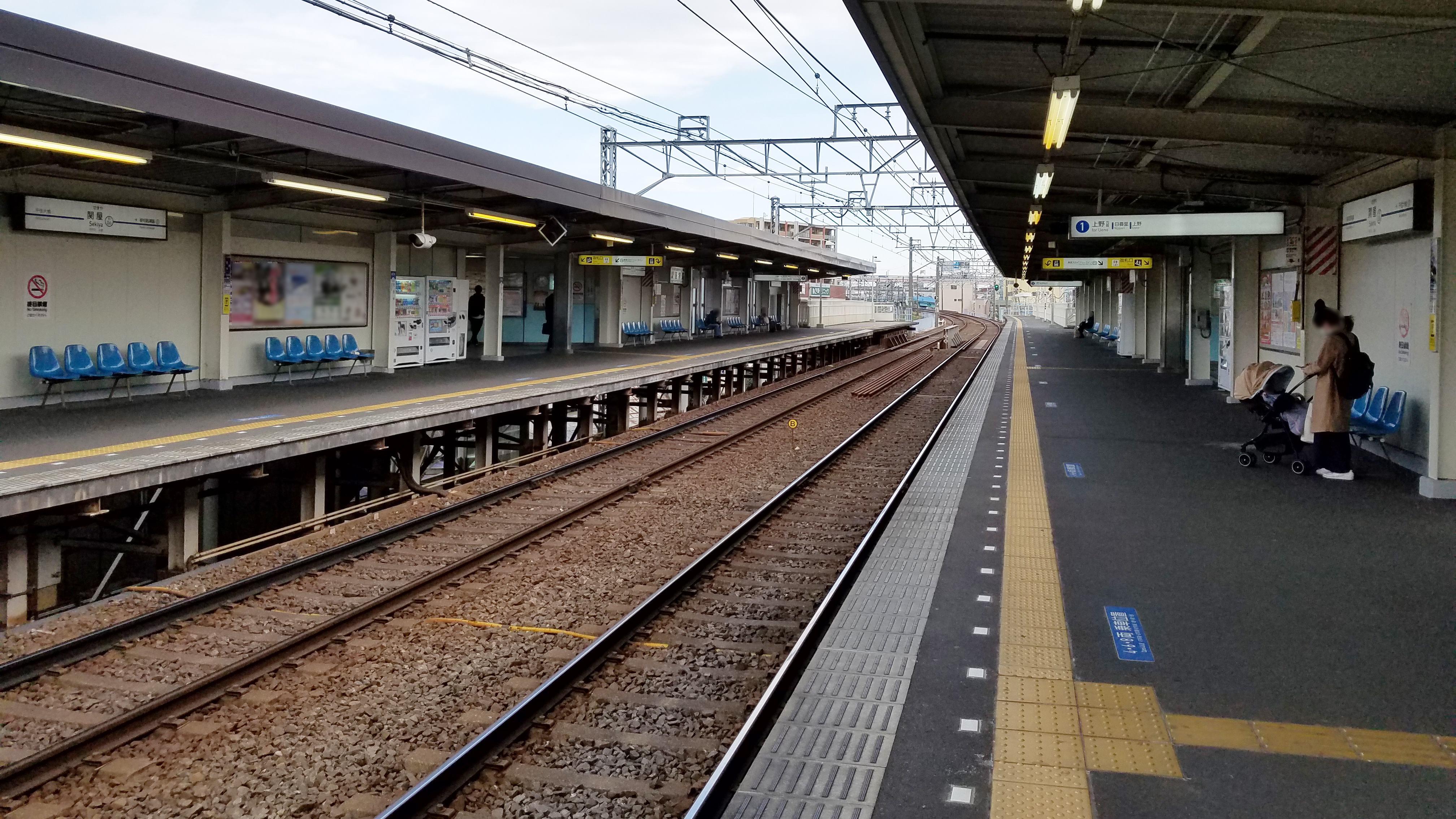 The platforms at Keisei Sekiya Station on the Keisei Main Line in Adachi Ward, Tokyo, Japan